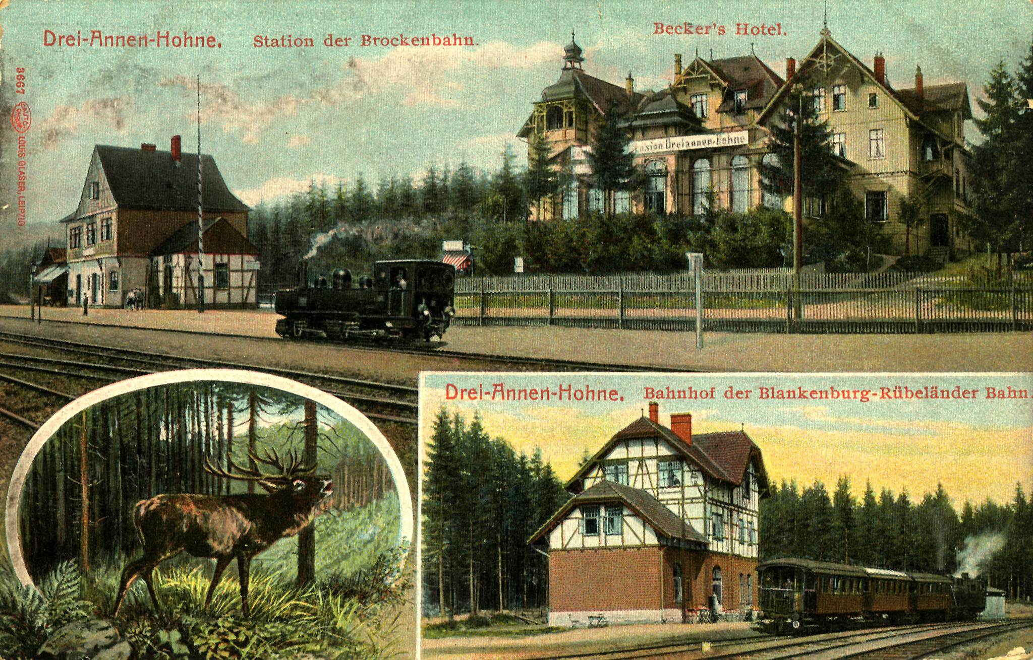 This image shows the two adjacent stations at Drei Annen Hohne. The top picture shows the branch-off station between Harzquerbahn and Brockenbahn. The lower picture shows the terminus station of the Rübeland Railway branch.